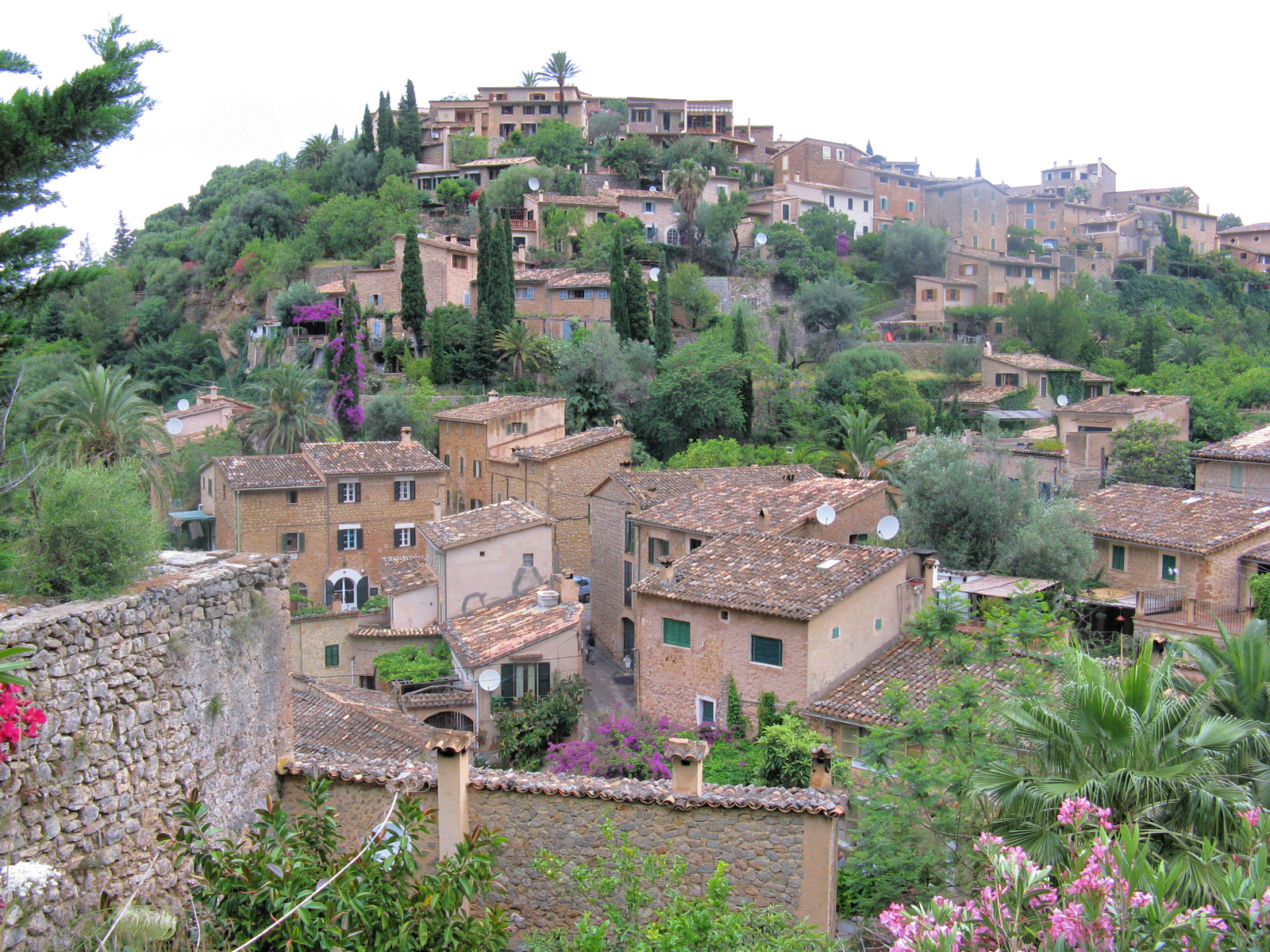 Part of the village of Deia in north west Majorca, Spain.